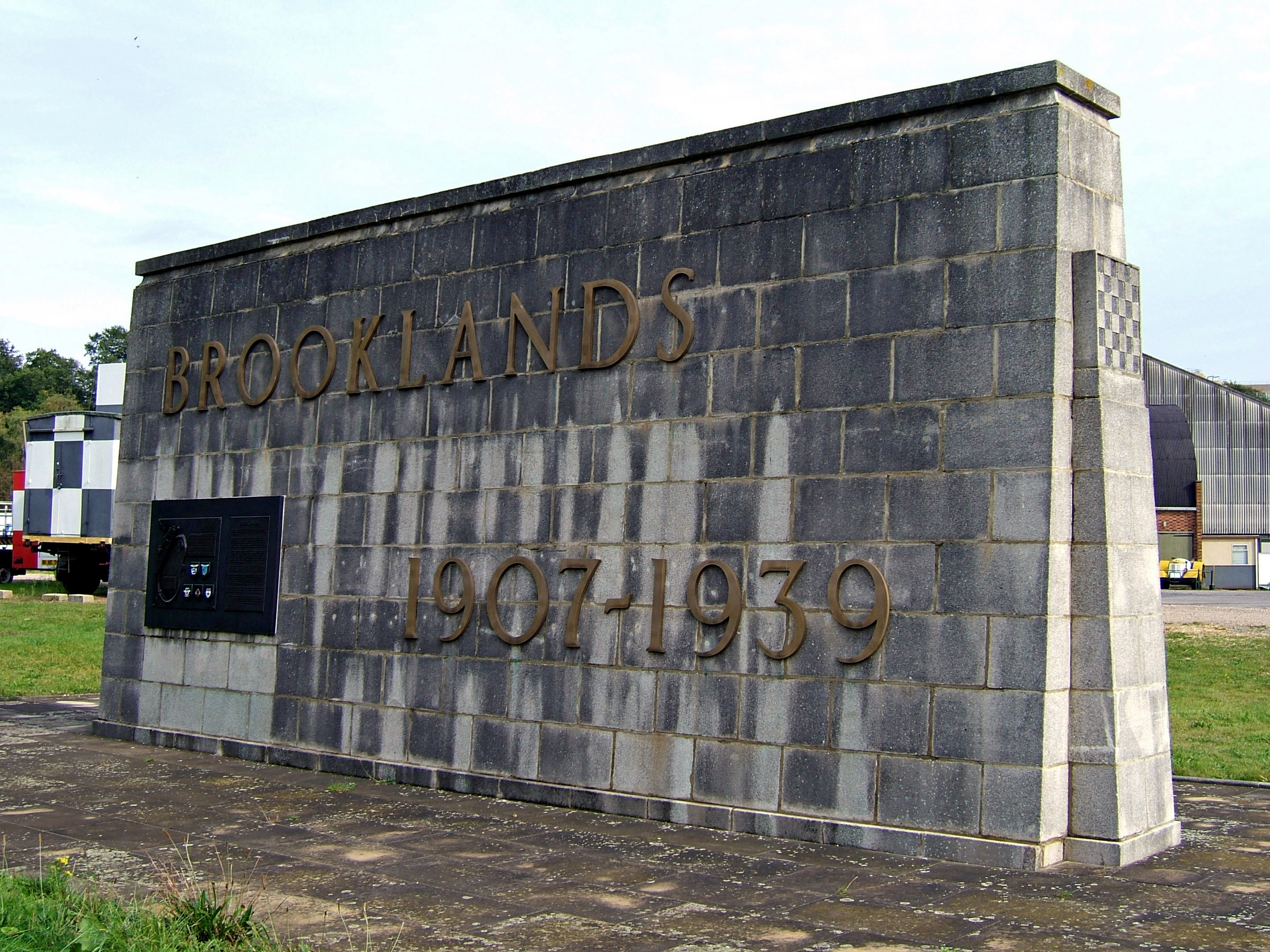 The memorial erected on the Golden Jubilee anniversary of the opening of the Brooklands morot racing circuit, Surrey, UK.